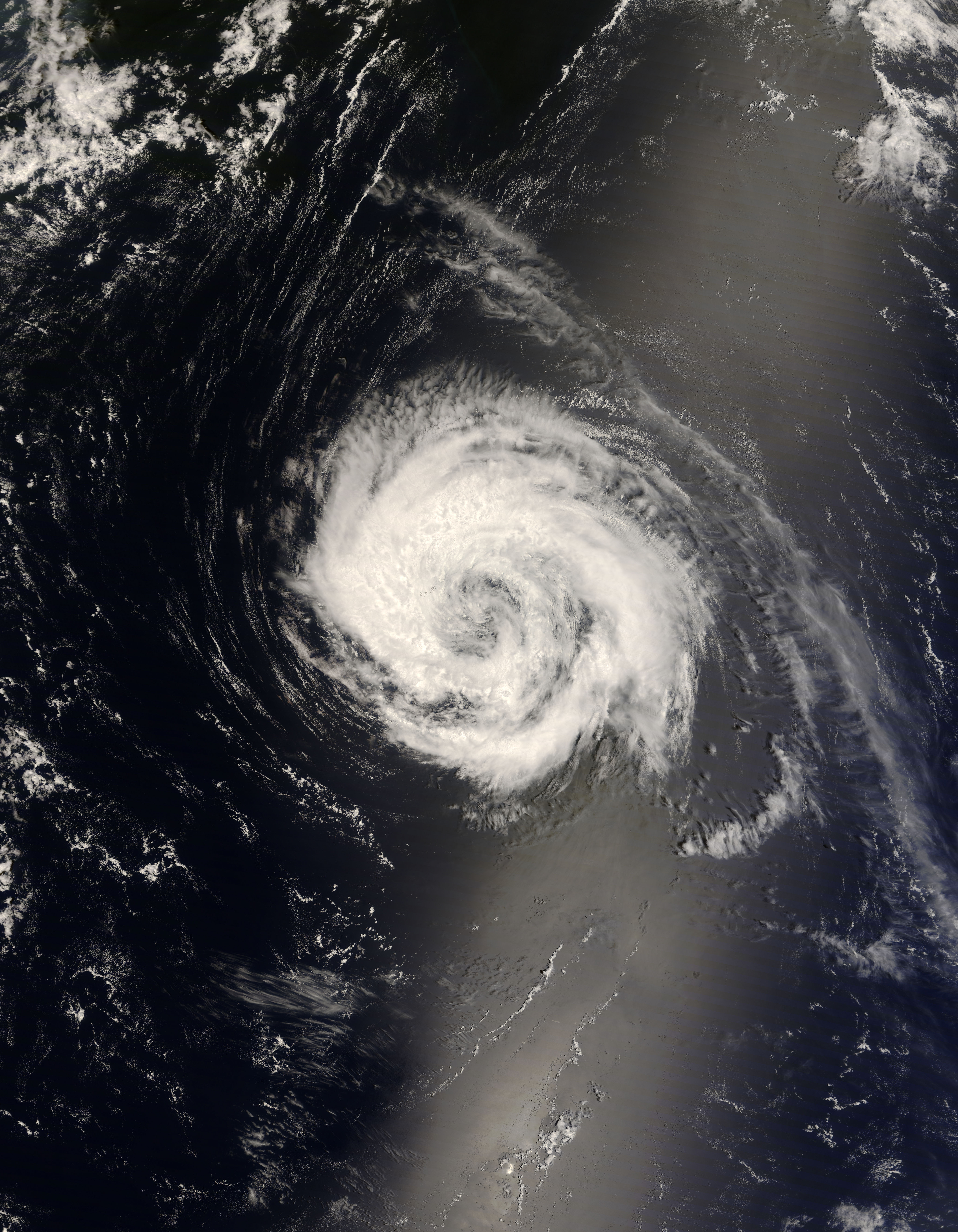 Tropical Storm Bertha while over Bermuda. 1530Z